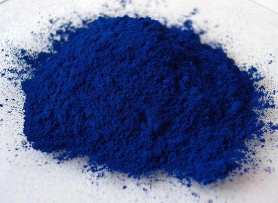 Phthaocyanine blue PB15:3